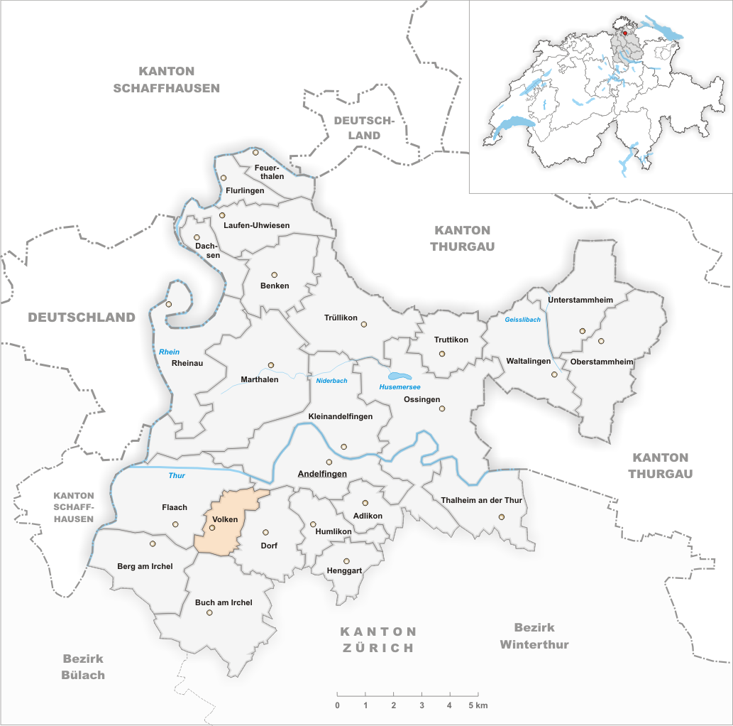 Municipality Volken